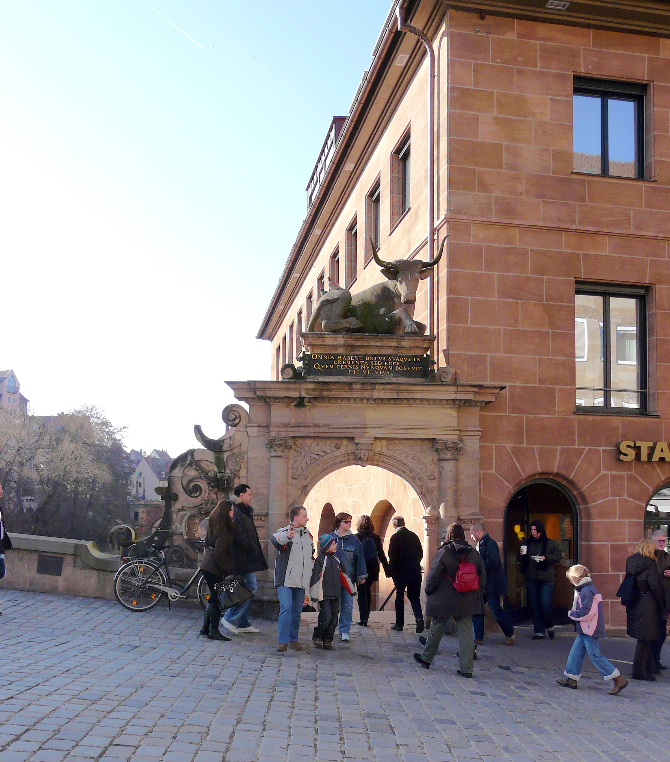 A portal with an ox sculpture on its top. This artwork is located on Fleischbrücke (Meat Bridge) in Nuremberg, Germany.